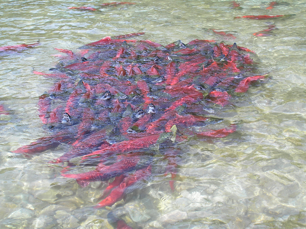 Similar clusters of sockeye salmon can be seen up and down Bristol Bay's rivers during spawning season. This photo was taken on the Wood River, which flows into the Nushagak River just north of Dillingham, Alaska. Photo courtesy of Thomas Quinn, University of Washington Visit for more information about EPA's Bristol Bay Watershed Assessment